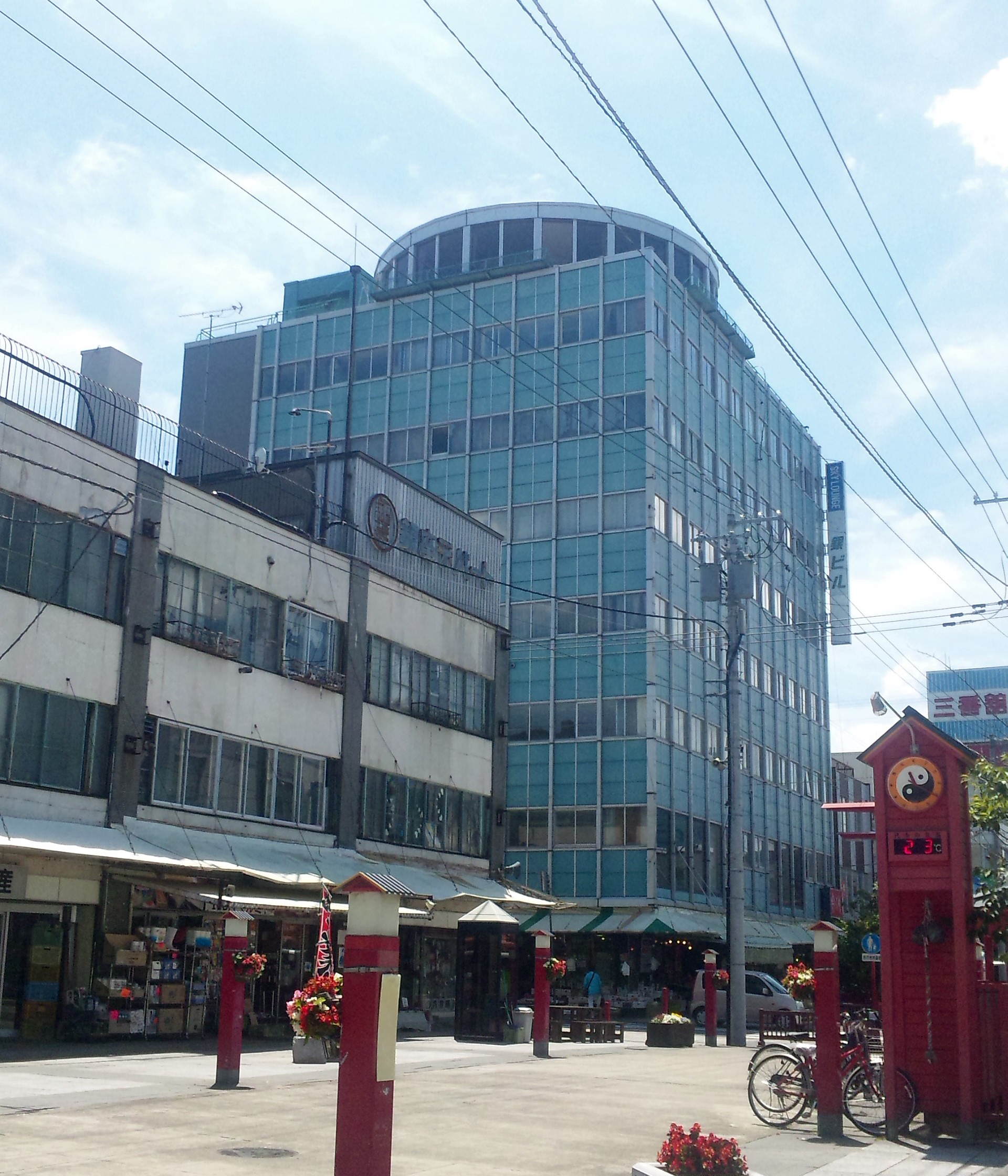 Ginza Center Building; a commercial building in Asahikawa, Hokkaido, Japan